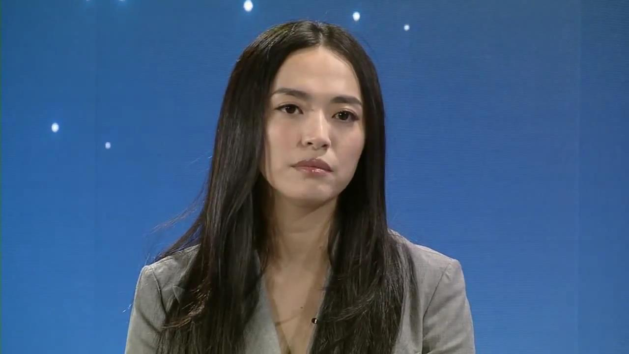 China 2014 - An Insight, An Idea with Yao Chen